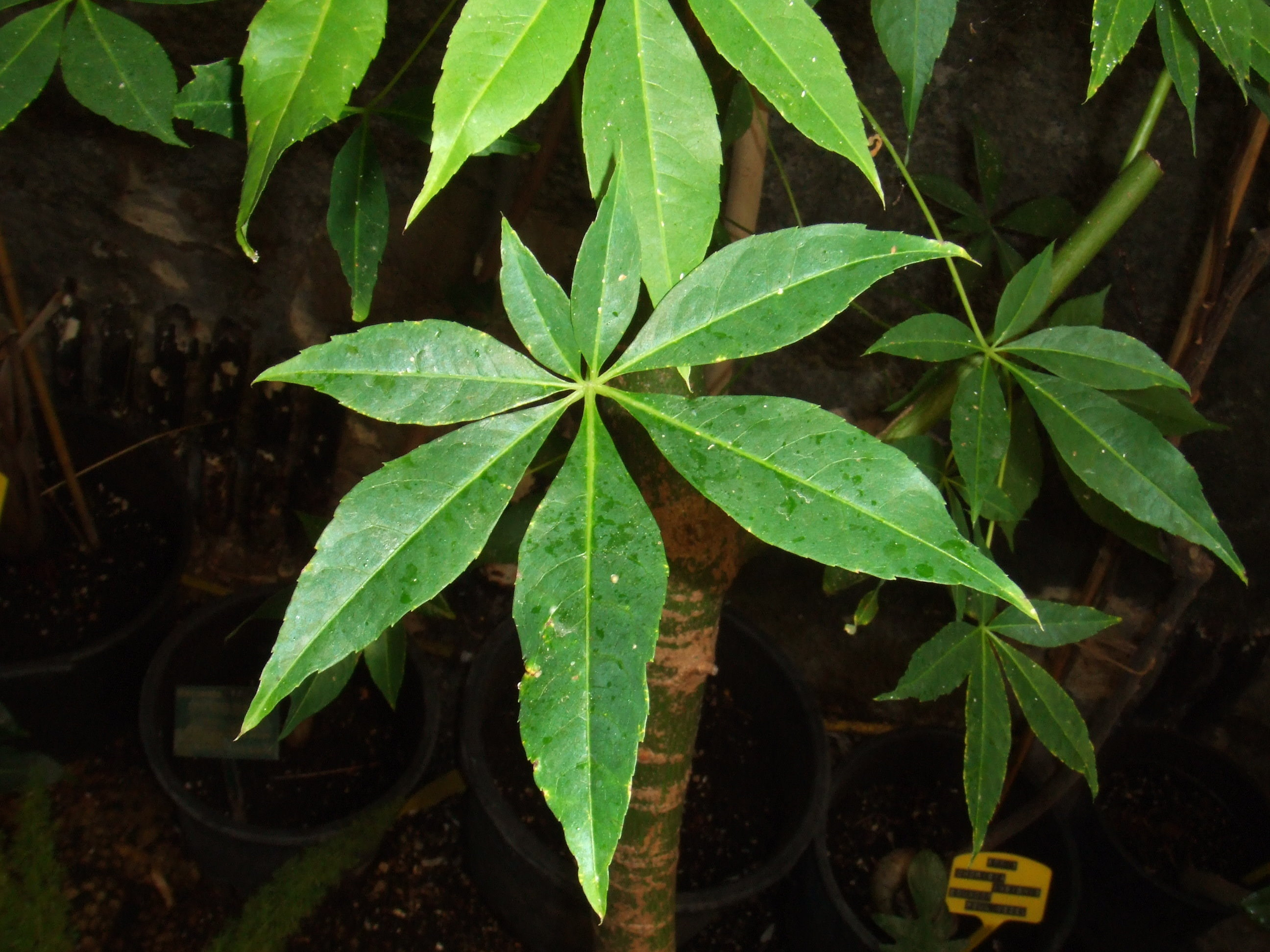 Leaf of Bombax ceiba, picture taken at Botanische Tuin TU Delft, The Netherlands The identity of this plant is uncertain. Leaf margin of Bombax ceiba should not be toothed. --Franz Xaver 20:03, 16 July 2006 (UTC)